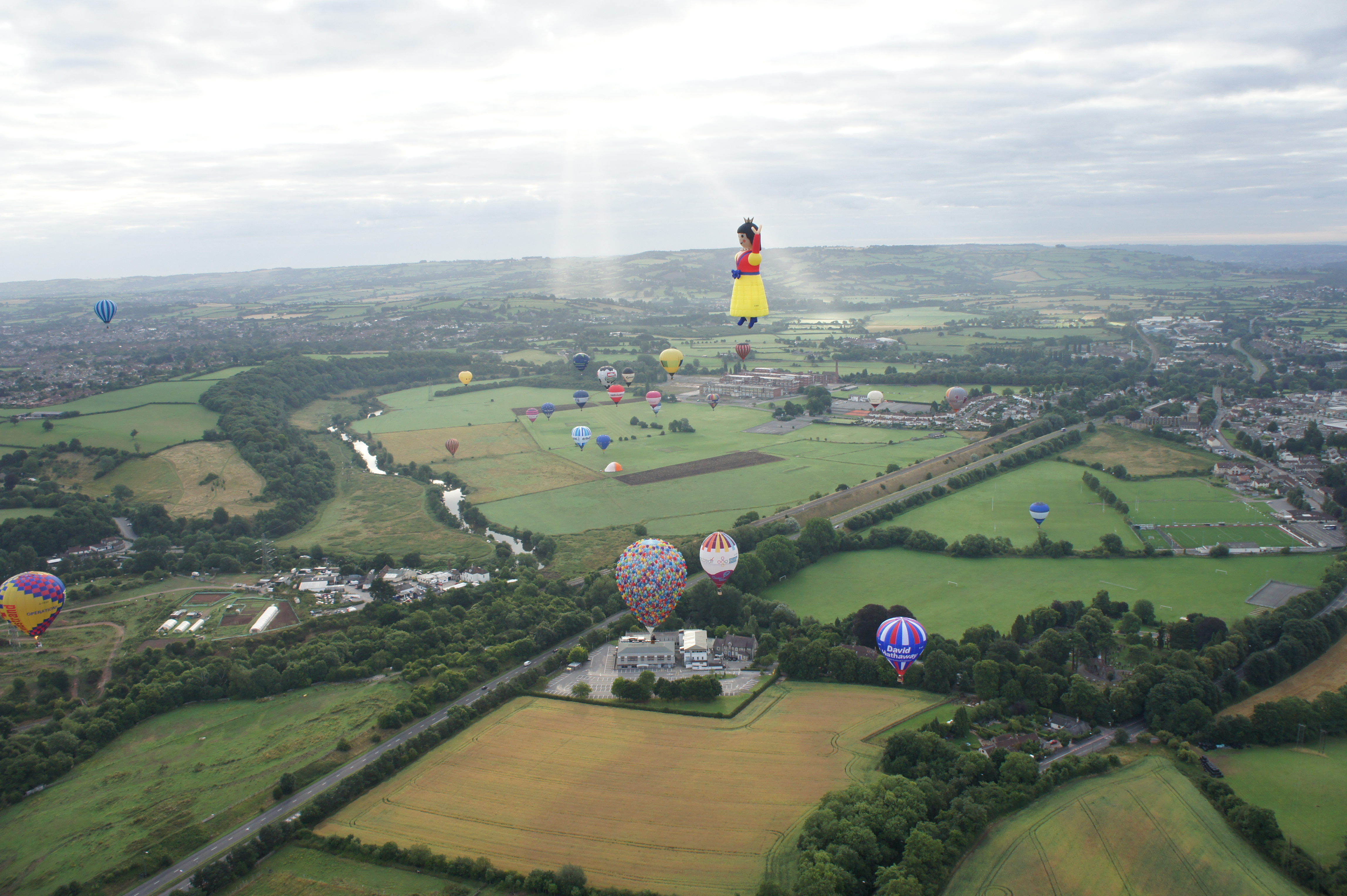 mass landing of hot air balloons at the Bristol International Balloon Fiesta